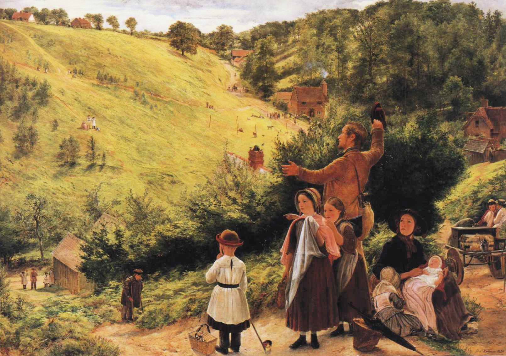 Scan of painting; original dimensions 27 x 39 in